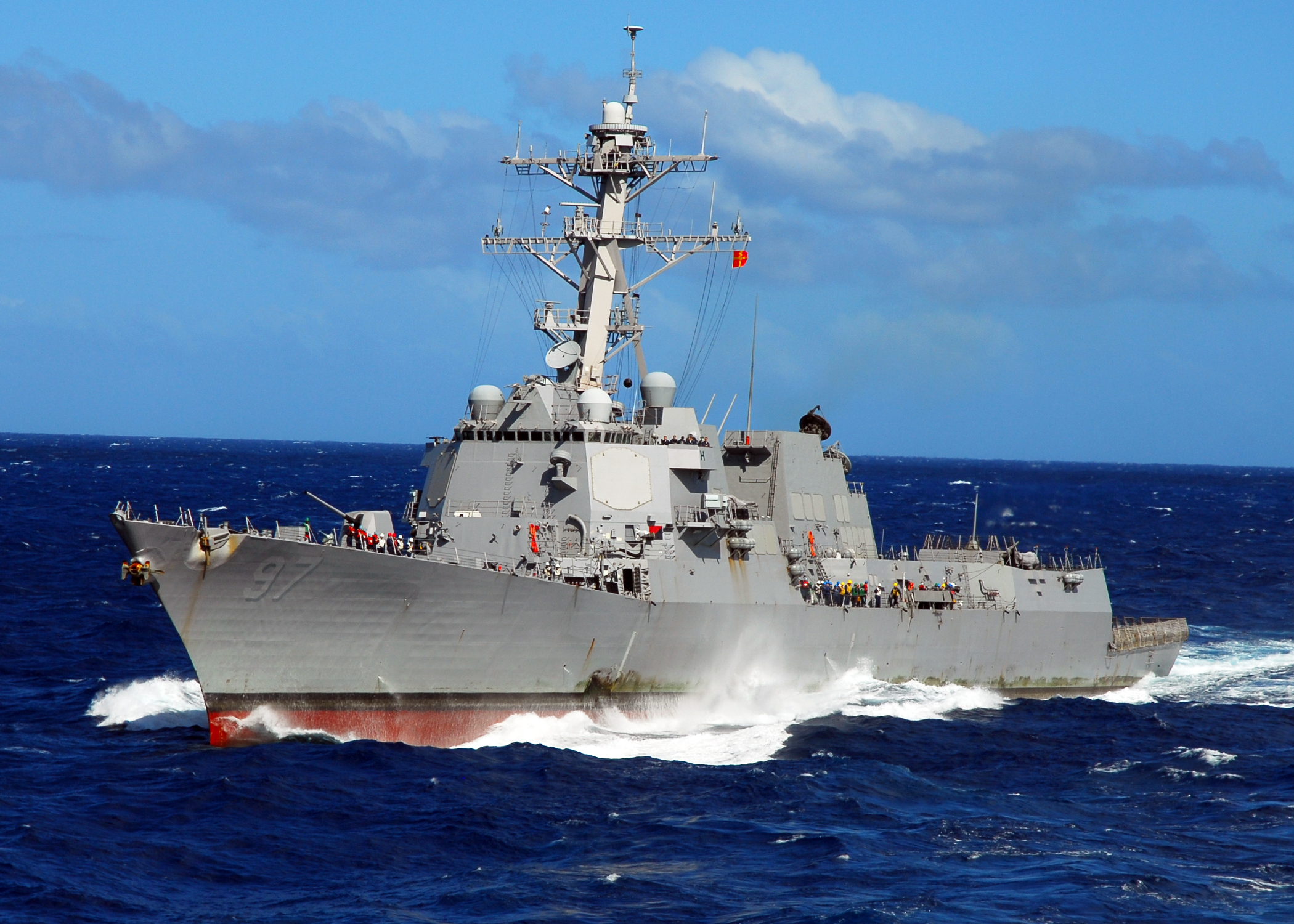 INDIAN OCEAN (Sept. 29, 2008) The guided missile destroyer USS Halsey (DDG 97) steams in the Indian Ocean while conducting maritime security operations. (U.S. Navy photo by Mass Communication Specialist 2nd Class Dustin Kelling/Released)